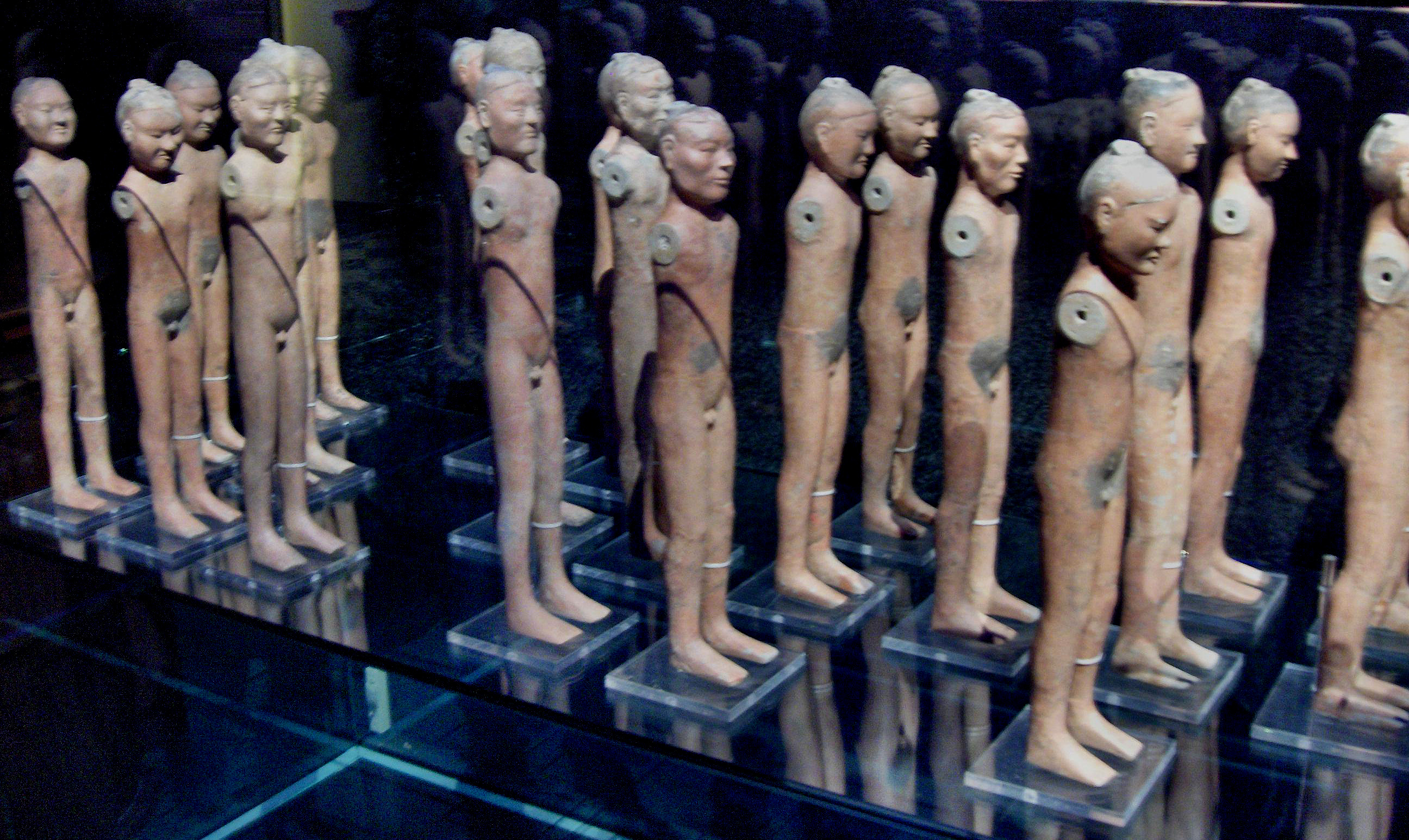 Naked servants (the wooden arms and the silk clothing have perished); Xi'an; Western Han Dynasty